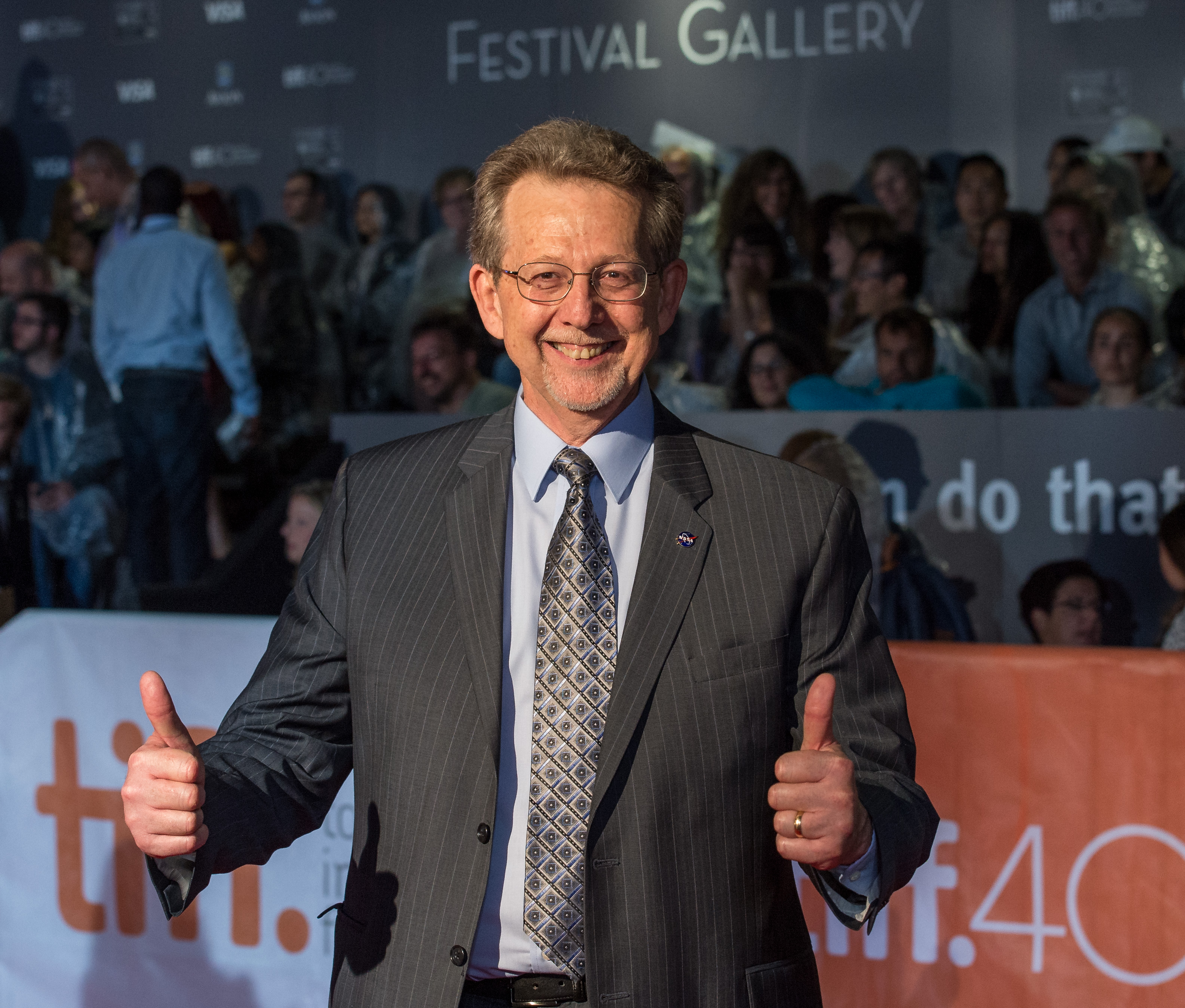 Jim Green, director of Planetary Science at NASA Headquarters in Washington, attends the world premiere for "The Martian” on day two of the Toronto International Film Festival at the Roy Thomson Hall, Friday, Sept. 11, 2015 in Toronto. NASA scientists and engineers served as technical consultants on the film. The movie portrays a realistic view of the climate and topography of Mars, based on NASA data, and some of the challenges NASA faces as we prepare for human exploration of the Red Planet in the 2030s.